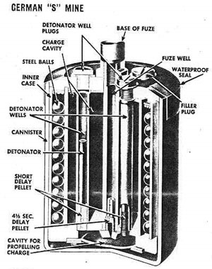 Diagram of S-35 German landmine. from 1943 US Army training manual. (FM 5-31, Nov 1 1943)